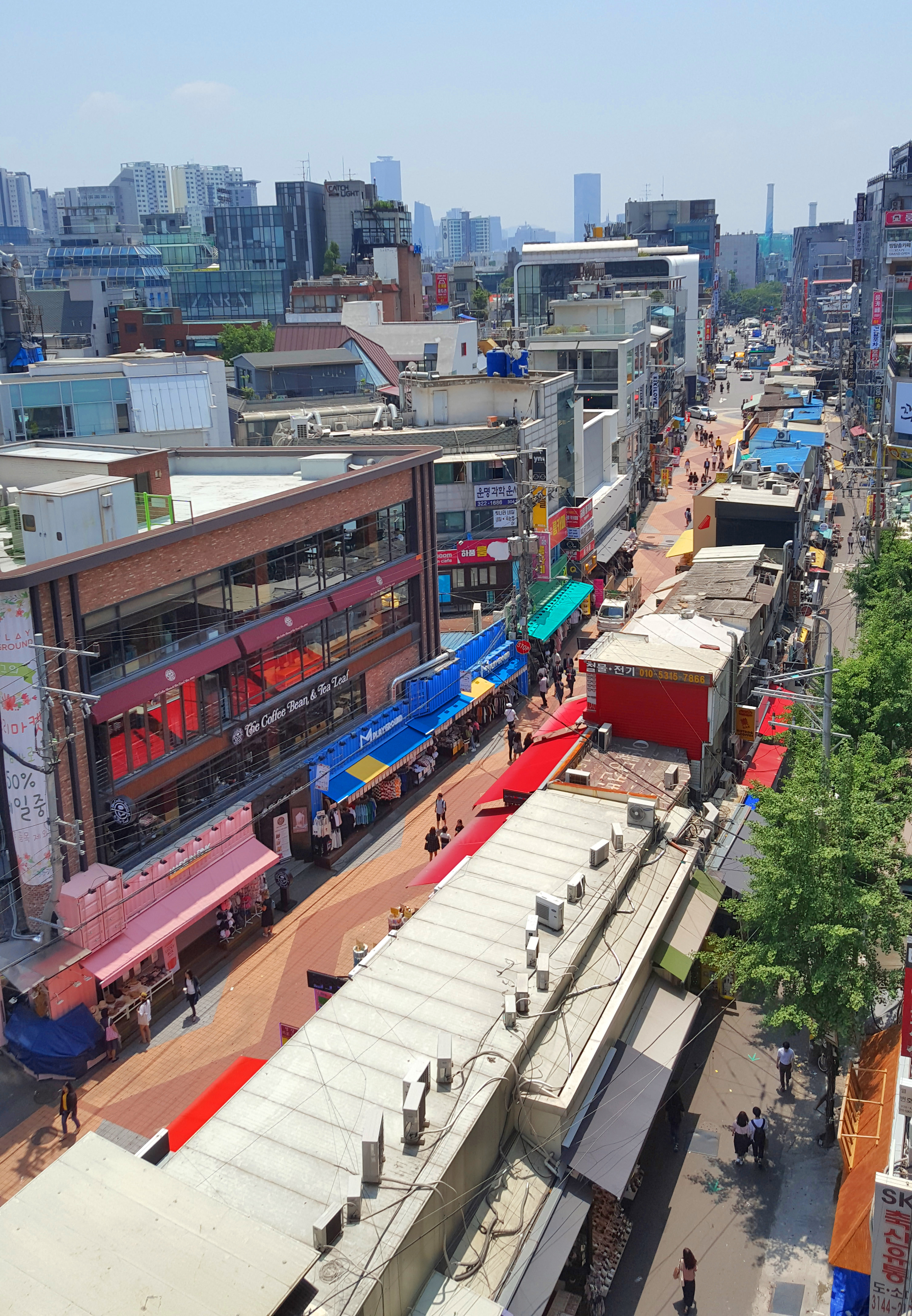 South side of Eoulmadangro